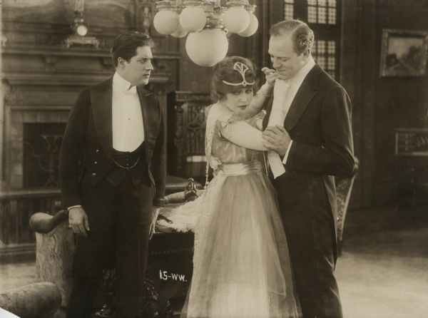 Left to Right: Carlyle Blackwell, Ethel Clayton, and Montagu Love in the American drama film A Woman's Way (1916) - publicity still